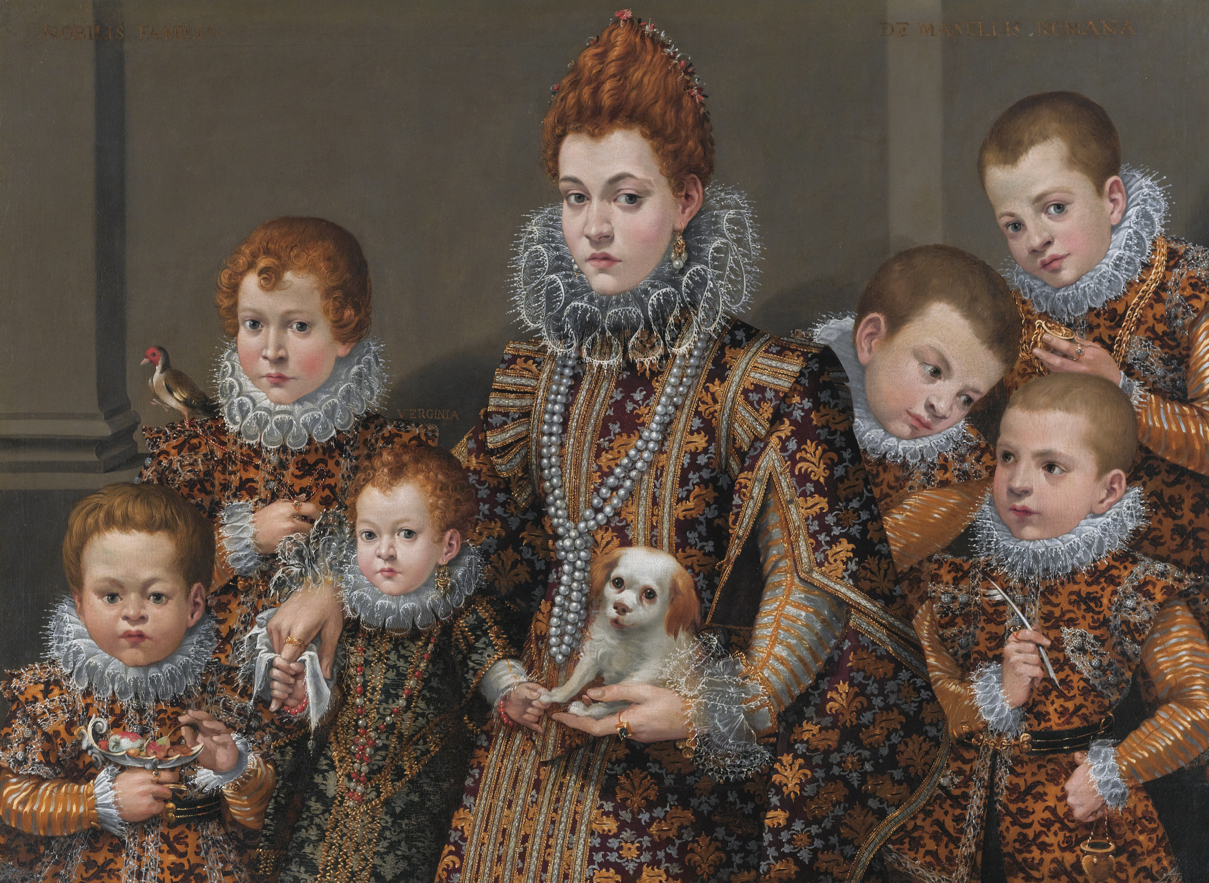 Bianca degli Utili Maselli, holding a dog and surrounded by six of her children oil on canvas 99 x 133.5 cm. inscribed t.: NOBILIS FAMILIA DE MASELLIS ROMANA inscribed c.l.: VERGINIA